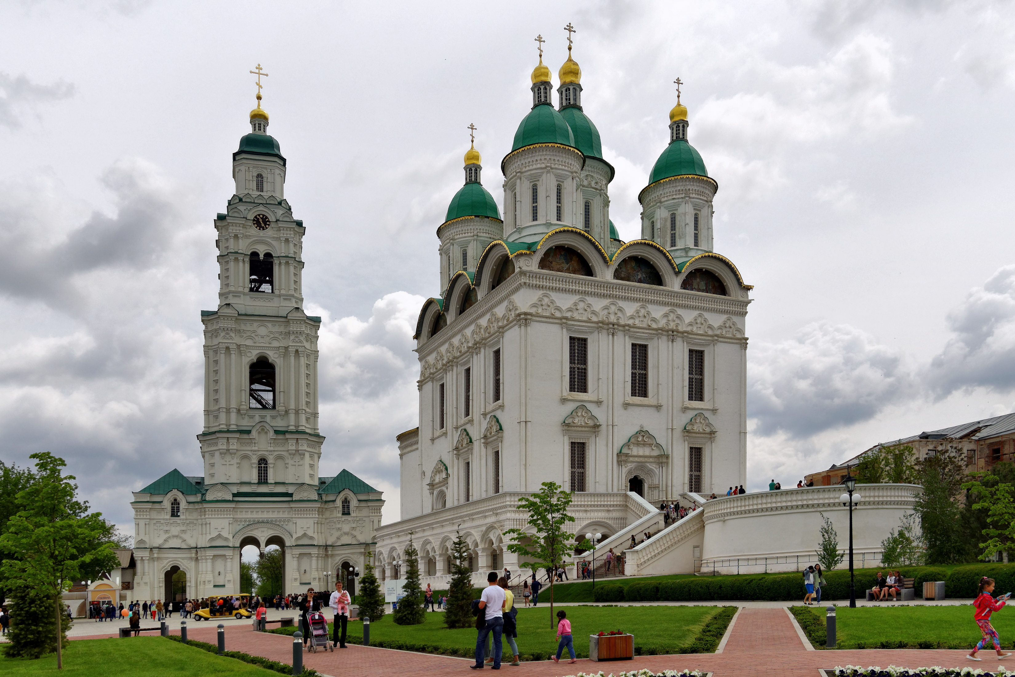 Astrakhan. Kremlin. Cathedral of the Assumption and the cathedral bell tower with Prechistinsky Gate